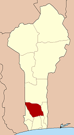 Map of Benin highlighting the department Zou